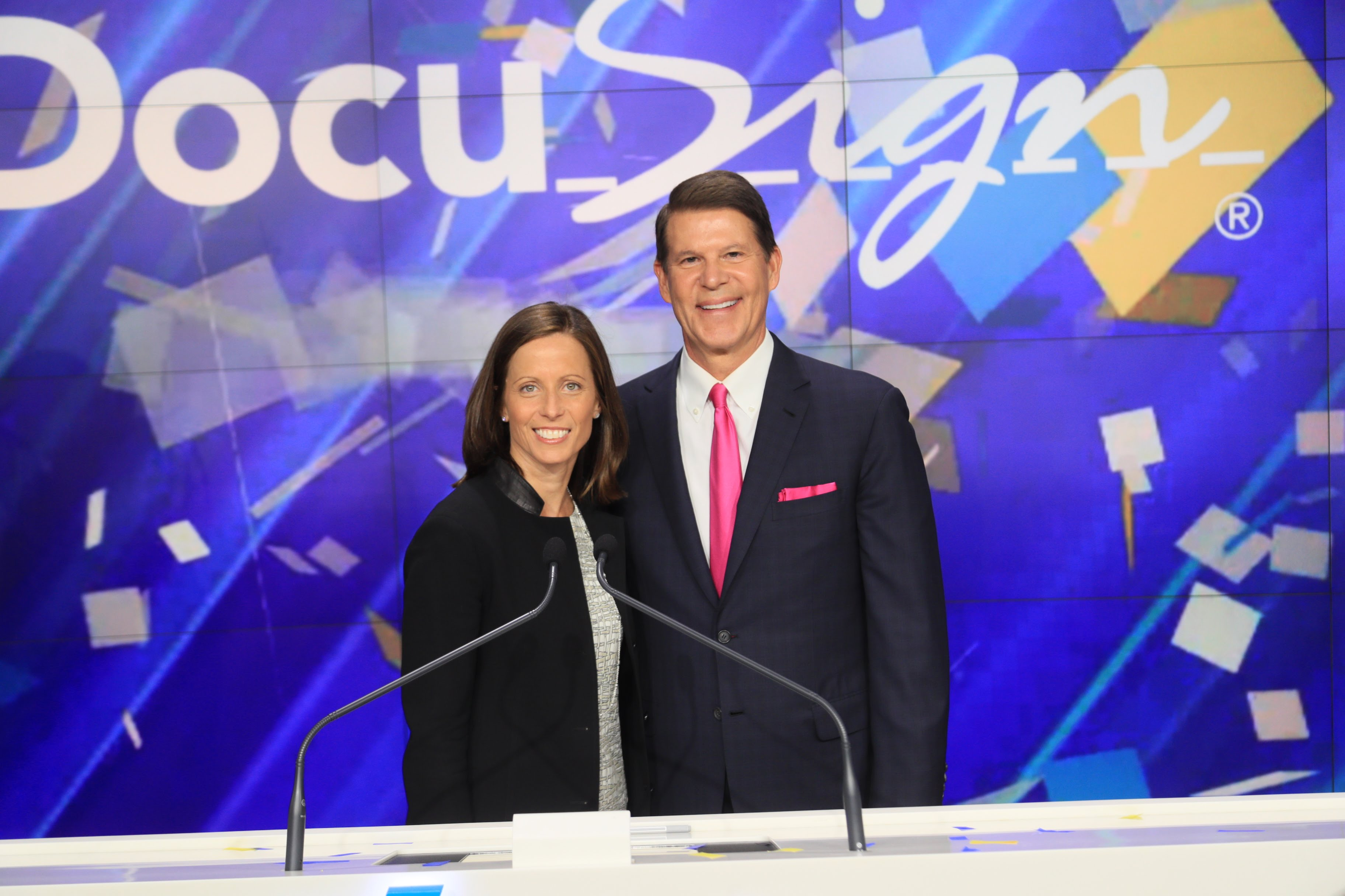 Nasdaq CEO Adena Friedman congratulates Keith Krach on his third Nasdaq IPO, DocuSign, on April 27 2018.